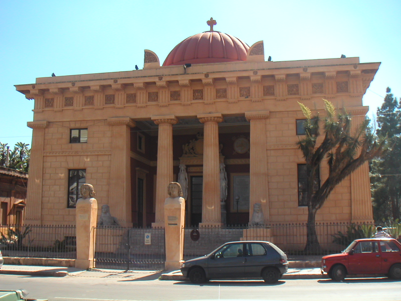 Orto Botanico di Palermo: c.d. Gymnasium. It was designed by French architect and archeologist Léon Dufourny and erected between 1785 e il 1795. The two Doric porchs on the facades were based on ancient Greek temple architecture of Sicily.